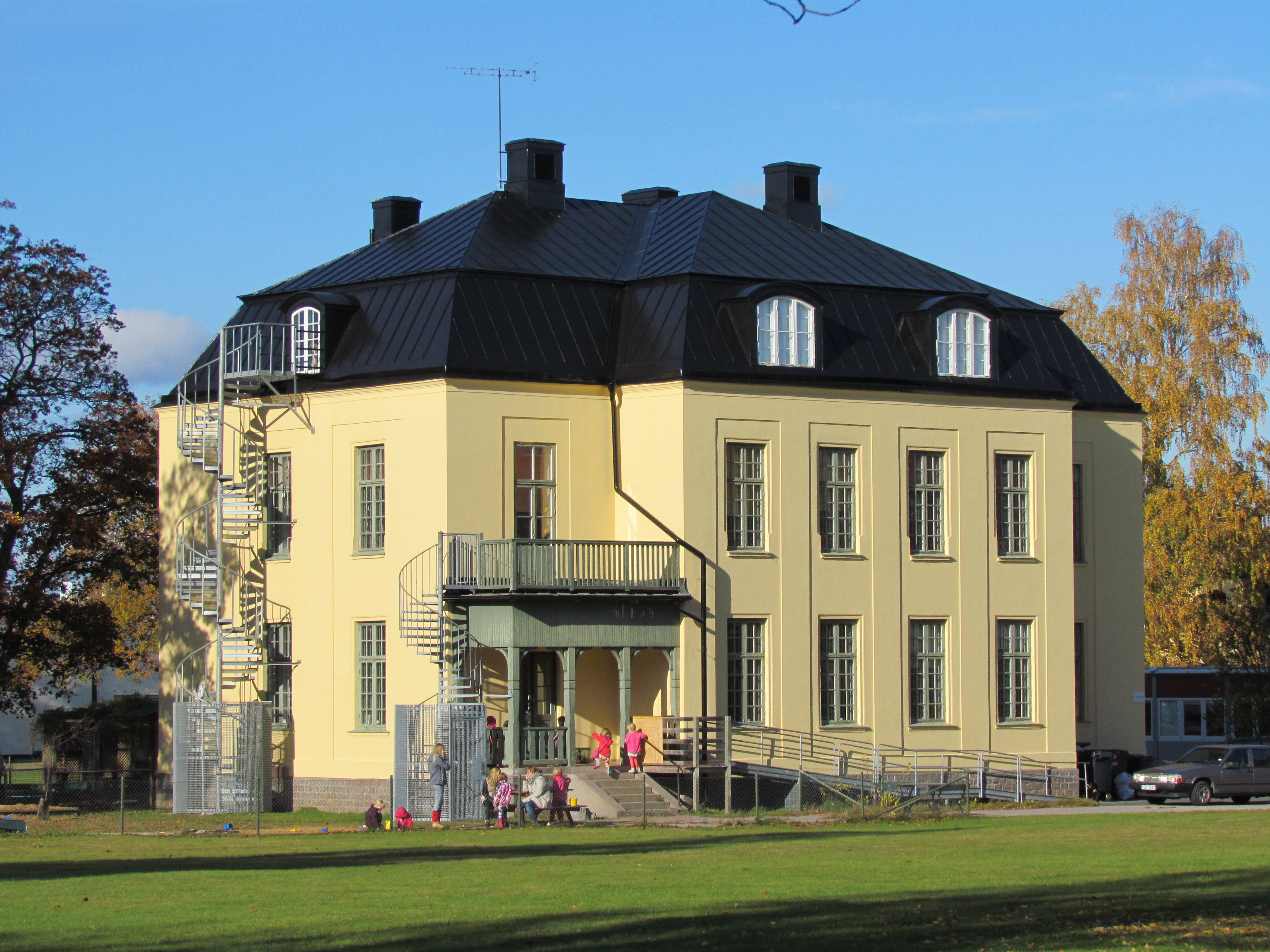 Sankta Gertruds sjukhus ("Saint Gertrude's psychiatric hospital"), Västervik, Sweden. Former ward, now a school. The hospital was closed in the 1990s.